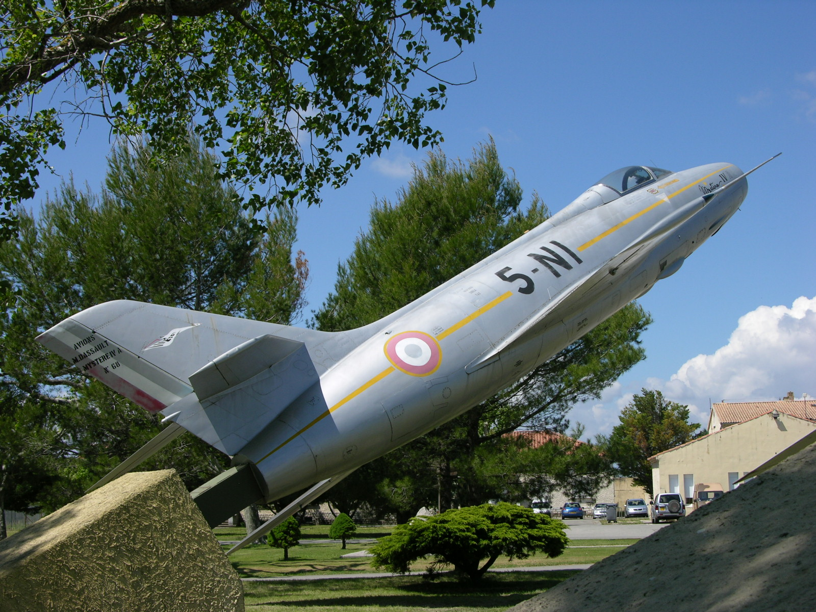 68 / 5-NI AMD 454 Mystère IVA Orange Air Base open day in May 2008. Wearing the colours of EC 01.005 Vendée. All the gate guards are in the colours of and wear the codes of aircraft which have been based at the airfield with Escadron de Chasse (EC) 5.